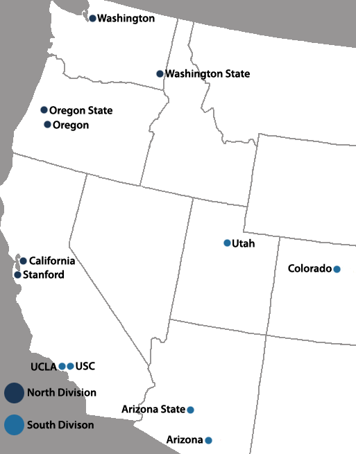 Updated with grey background & names written in black